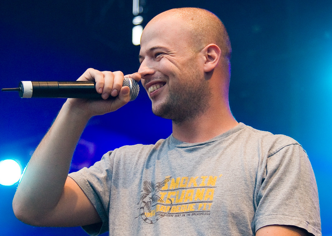 Flip Kowlier, 0110 concert on 1 November 2006 in Gent, Belgium